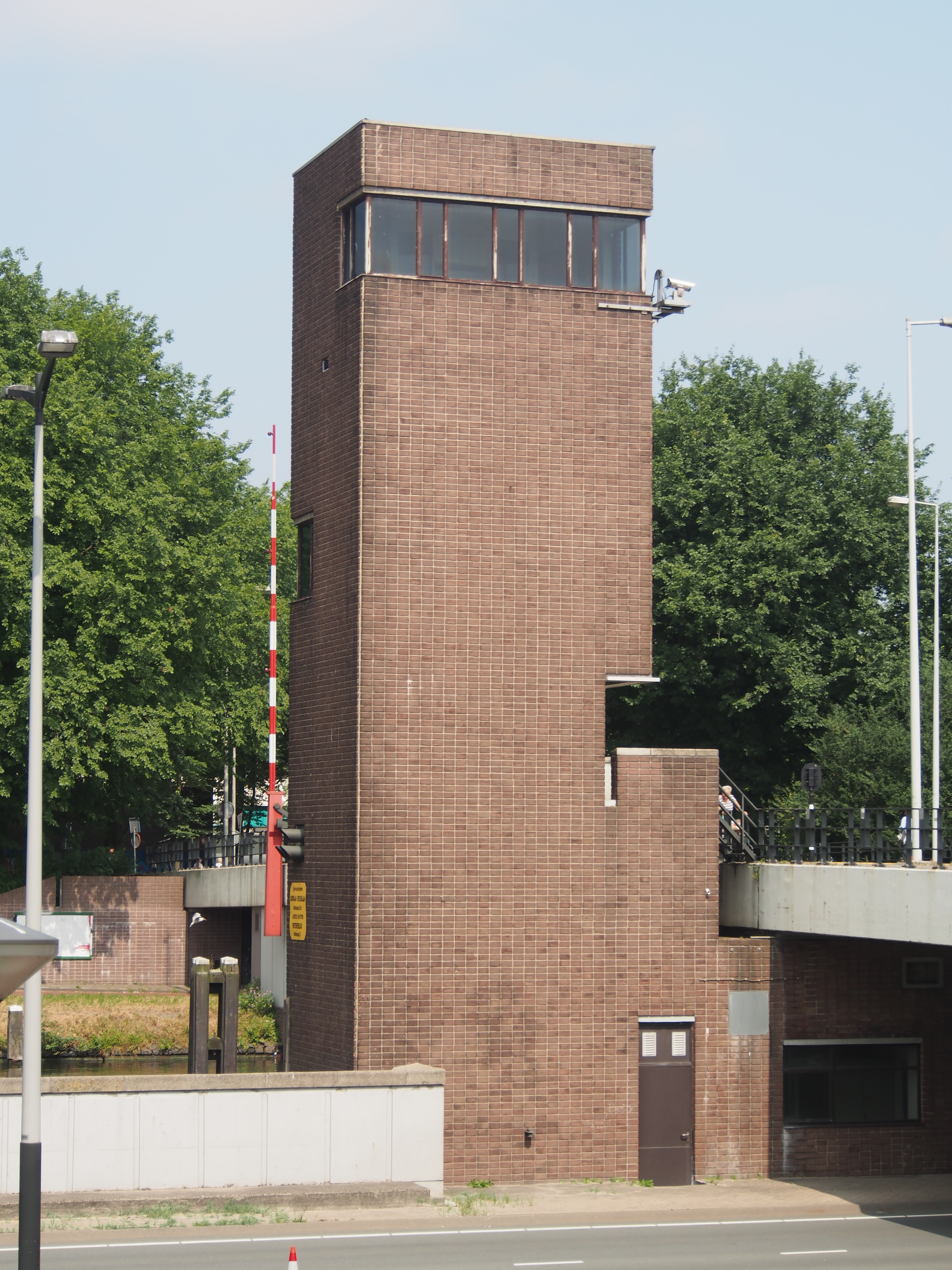 Photographed in Amsterdam.